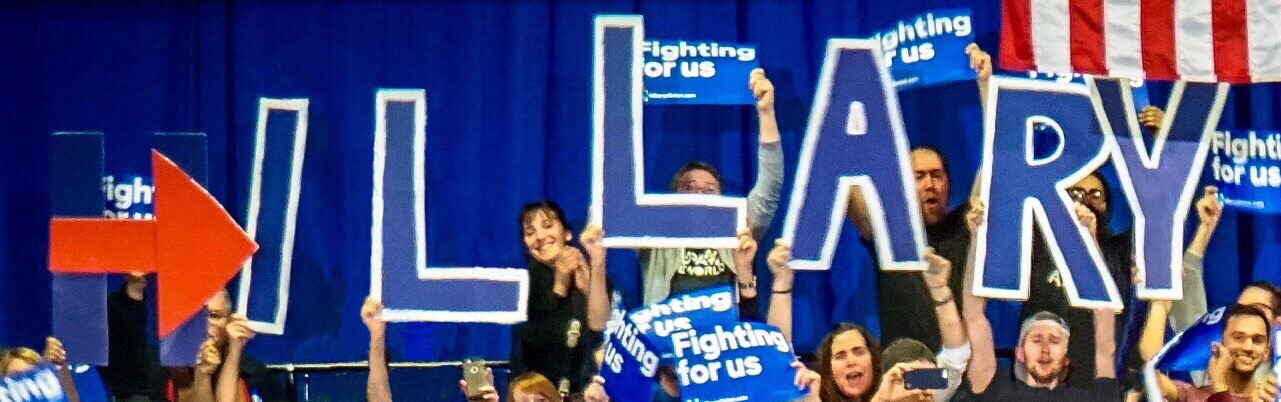 A physical wordmark consisting of the characters "H", "➡️", "I", "L", "L", "A", and "Y" (each one being dark blue expect for "➡️" which is red, and "➡️" overlaying "H"); raised by supporters of Hillary Clinton.